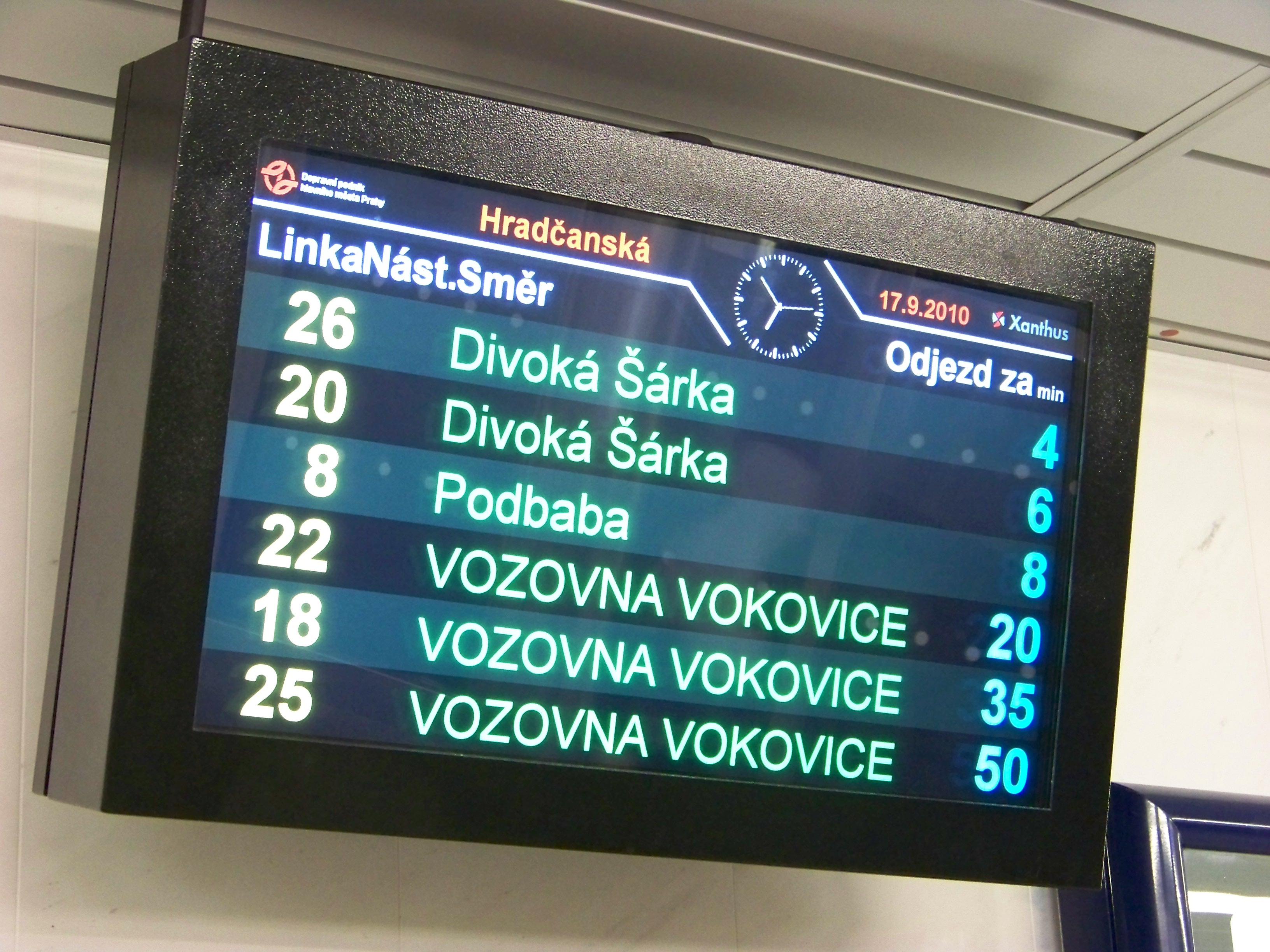 Prague-Dejvice, the Czech Republic. Tram timetable display in the vestibule of Hradčanská metro station.